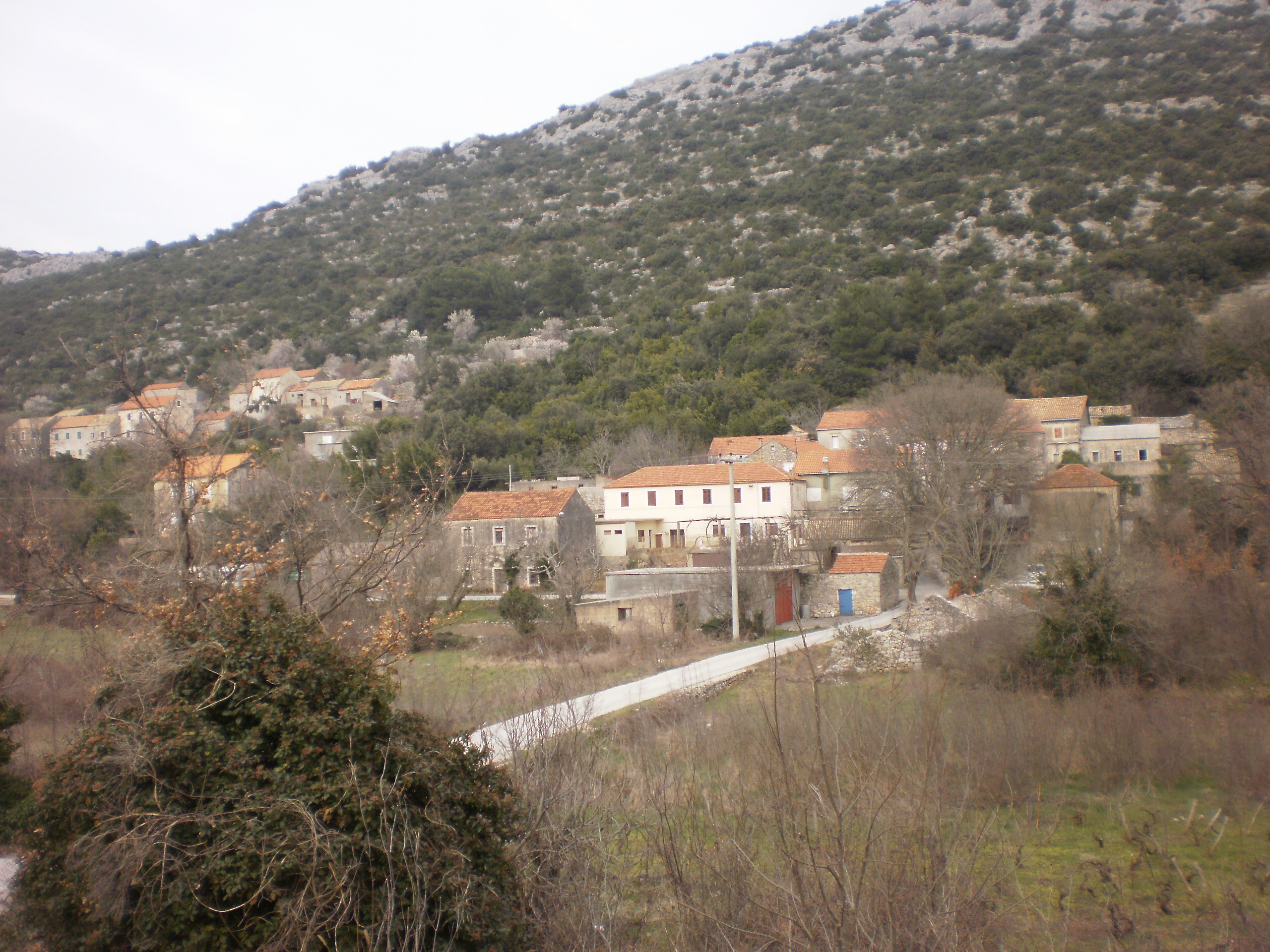 Donja Vručica, village in Trpanj municipality OLYMPUS DIGITAL CAMERA